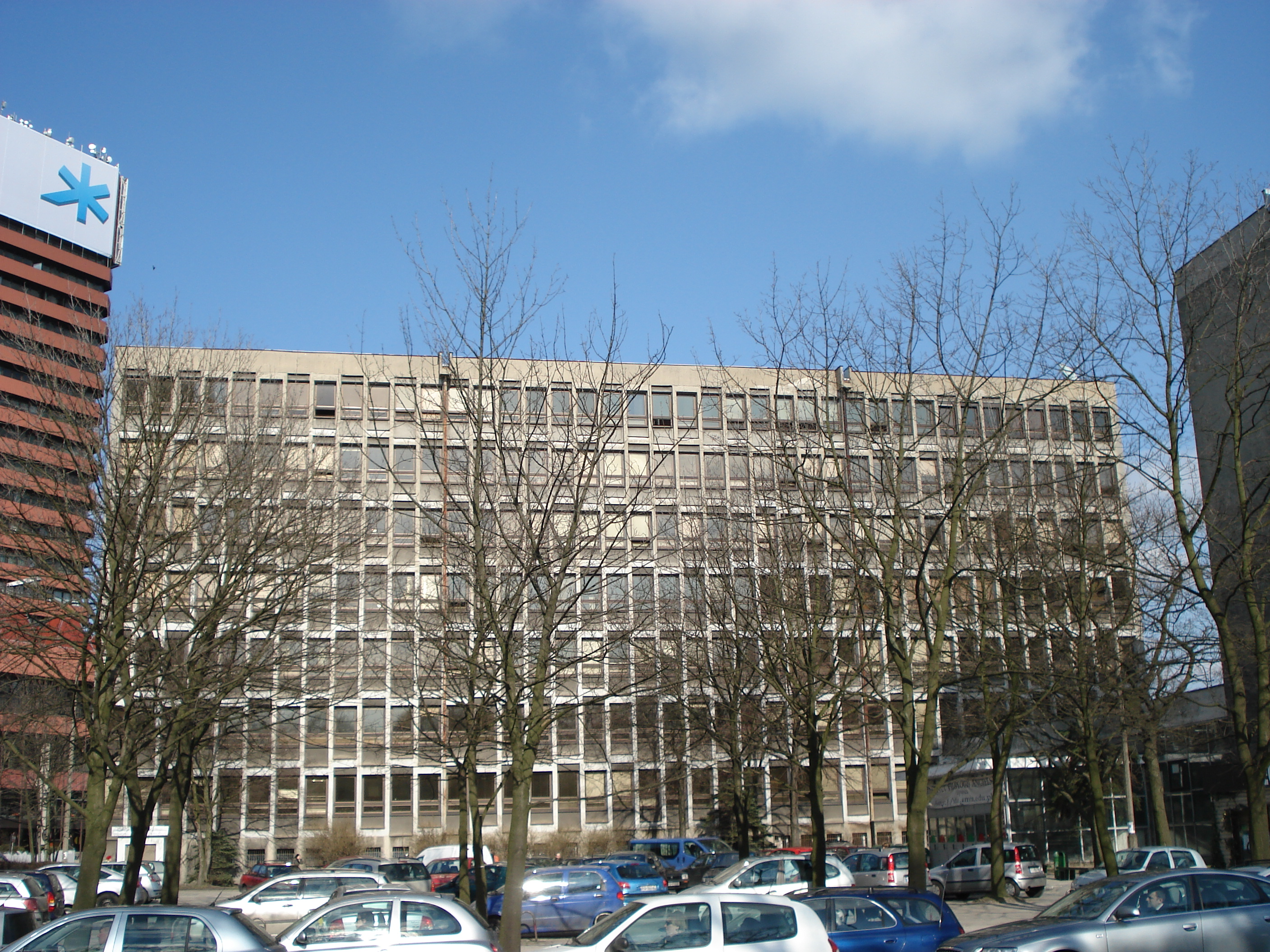 Collegium Novum of the Adam Mickiewicz University in Poznań, Building A (incl. Dept. of Art History)